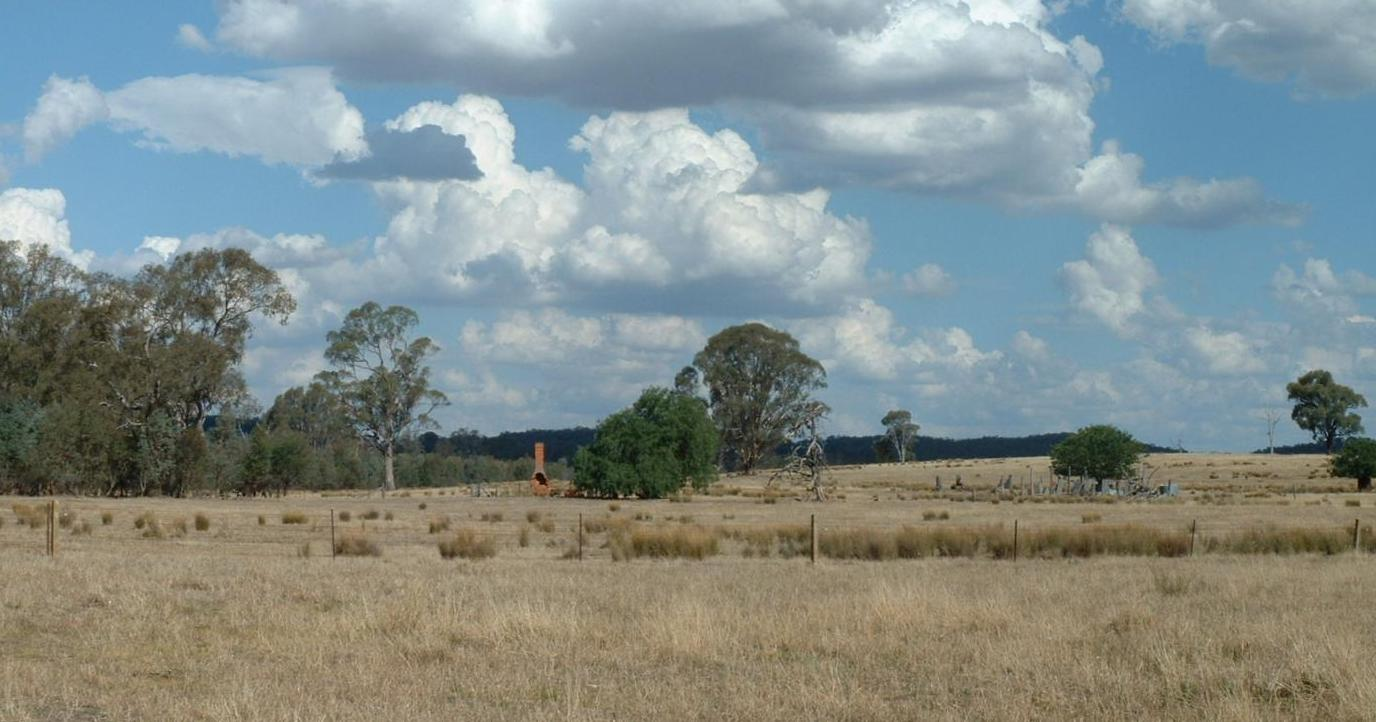 Wide view of Ned Kelly's house at Greta, Victoria.